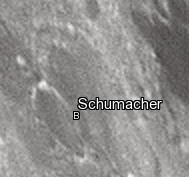 Schumacher lunar crater as seen from Earth with satellite craters labeled